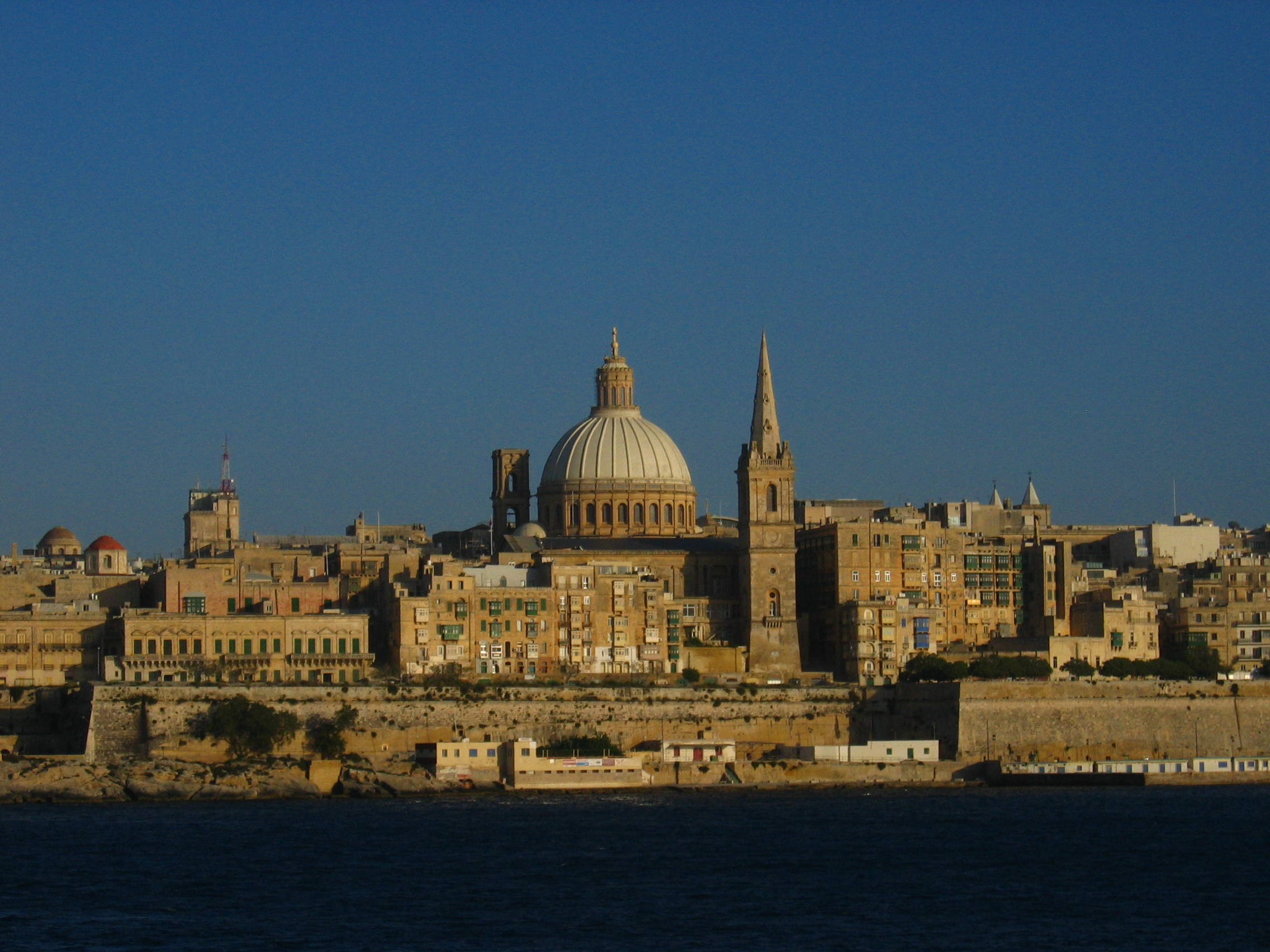 Valletta skyline.